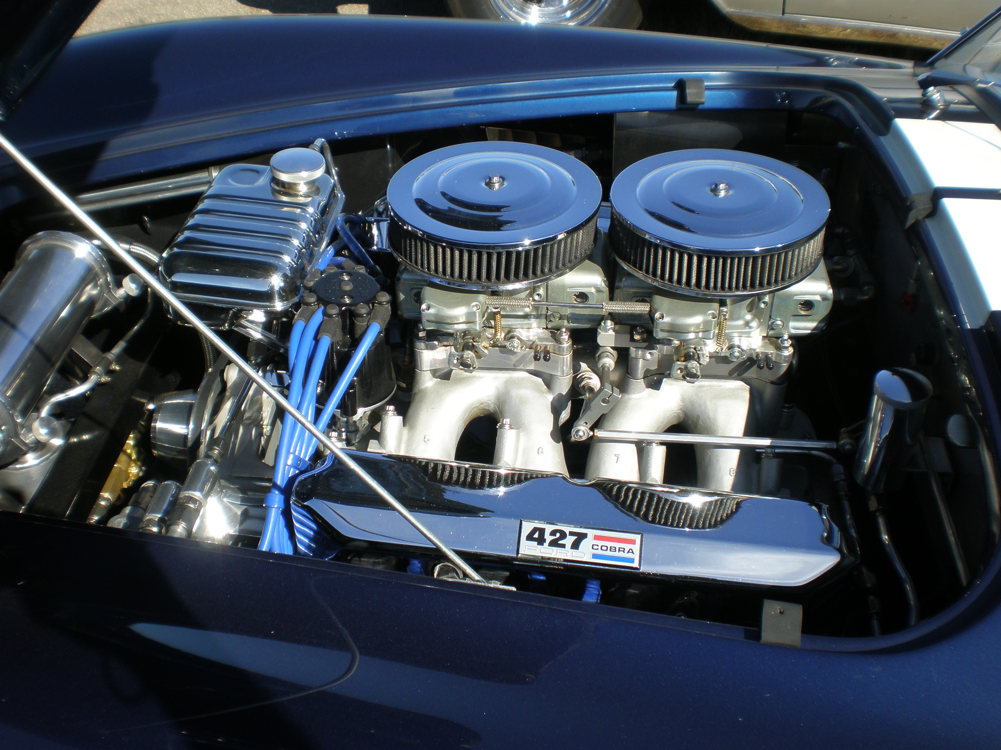 The Ford 427 engine of an AC Cobra at the Pacific Coast Dream Machines vehicle show at the Half Moon Bay Airport in Half Moon Bay, California.